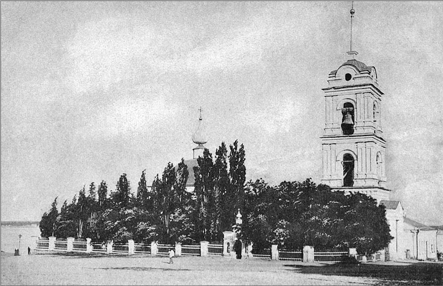 Church of the Assumption in Tsaritsyn